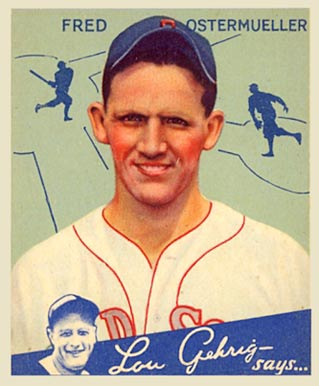 1934 Goudey baseball card of Fred "Fritz" Ostermueller of the Boston Red Sox #93. PD-not-renewed.